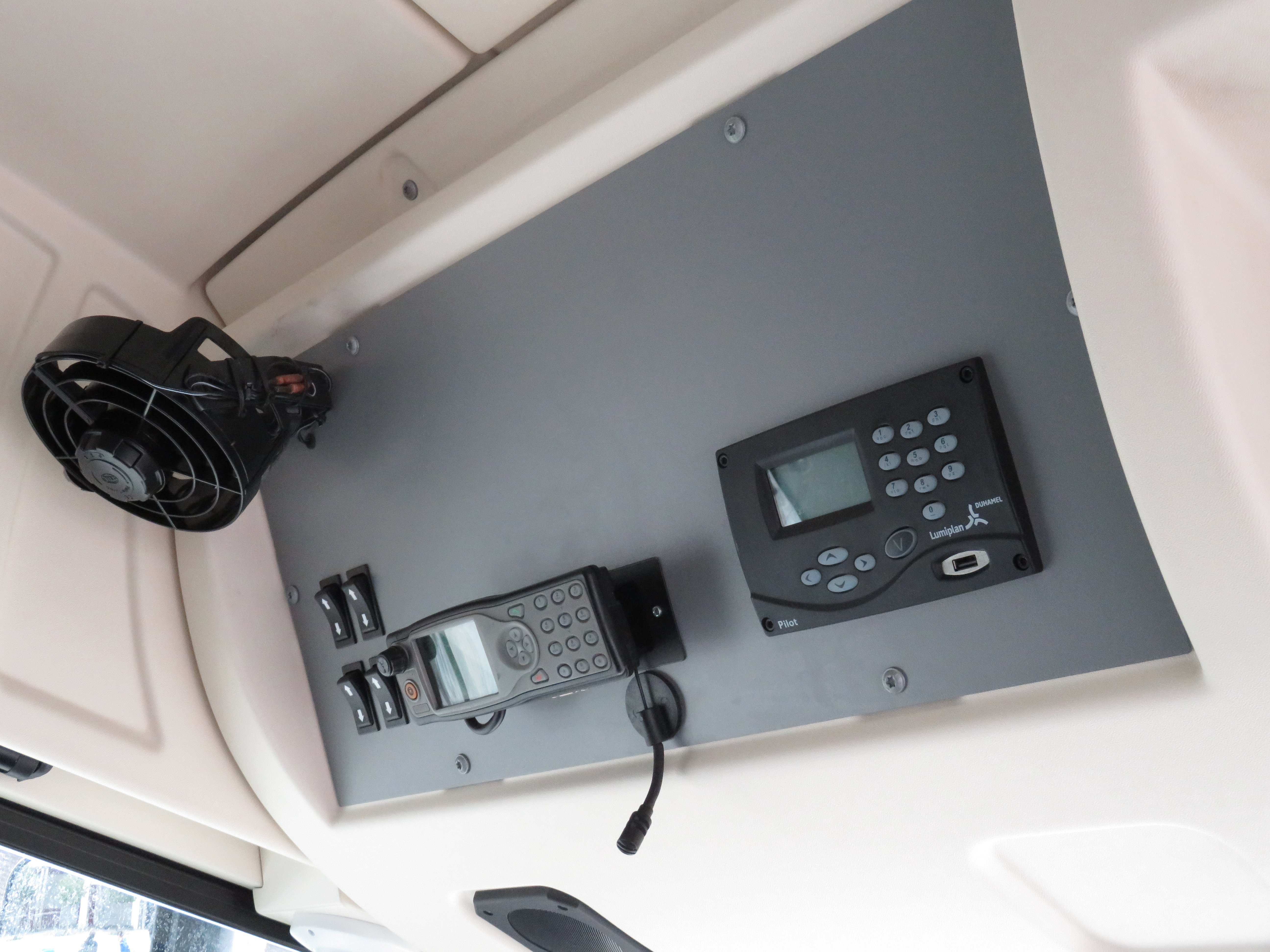 The radio of an Heuliez GX 137L (n°4113 of the French agglomeration community Chambéry Métropole - Cœur des Bauges).